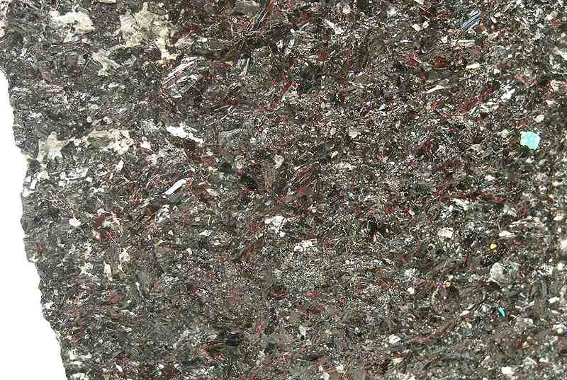 Juddite, manganoan variety of Arfvedsonite Locality: Tirodi Mine, Tirodi, Madhya Pradesh, India (Locality at ) Size: miniature, 5.4 x 5.4 x 1.1 cm Arfvedsonite (Manganoan) var. Juddite on Braunite I had never heard of Juddite before but was surprised to see a reddish mineral from India, associated with braunite, and so assumed it to be a manganese species. It turns out that it is indeed the manganoan variety of arfvedsonite, by modern classification. The crystals are bright red, small but beautiful under a scope. The matrix is braunite: Braunite is very rare, and these are old specimens, from India. According to MINDAT: Juddite was named by Lewis Leigh Fermor in 1908 in honor of John Wesley Judd [February 18, 1840 – March 3, 1916]. Judd was a field geologist and petrologist for the British Geological Survey and later professor of geology at the Imperial (Royal) College in London, England. Ex. John White Collection.